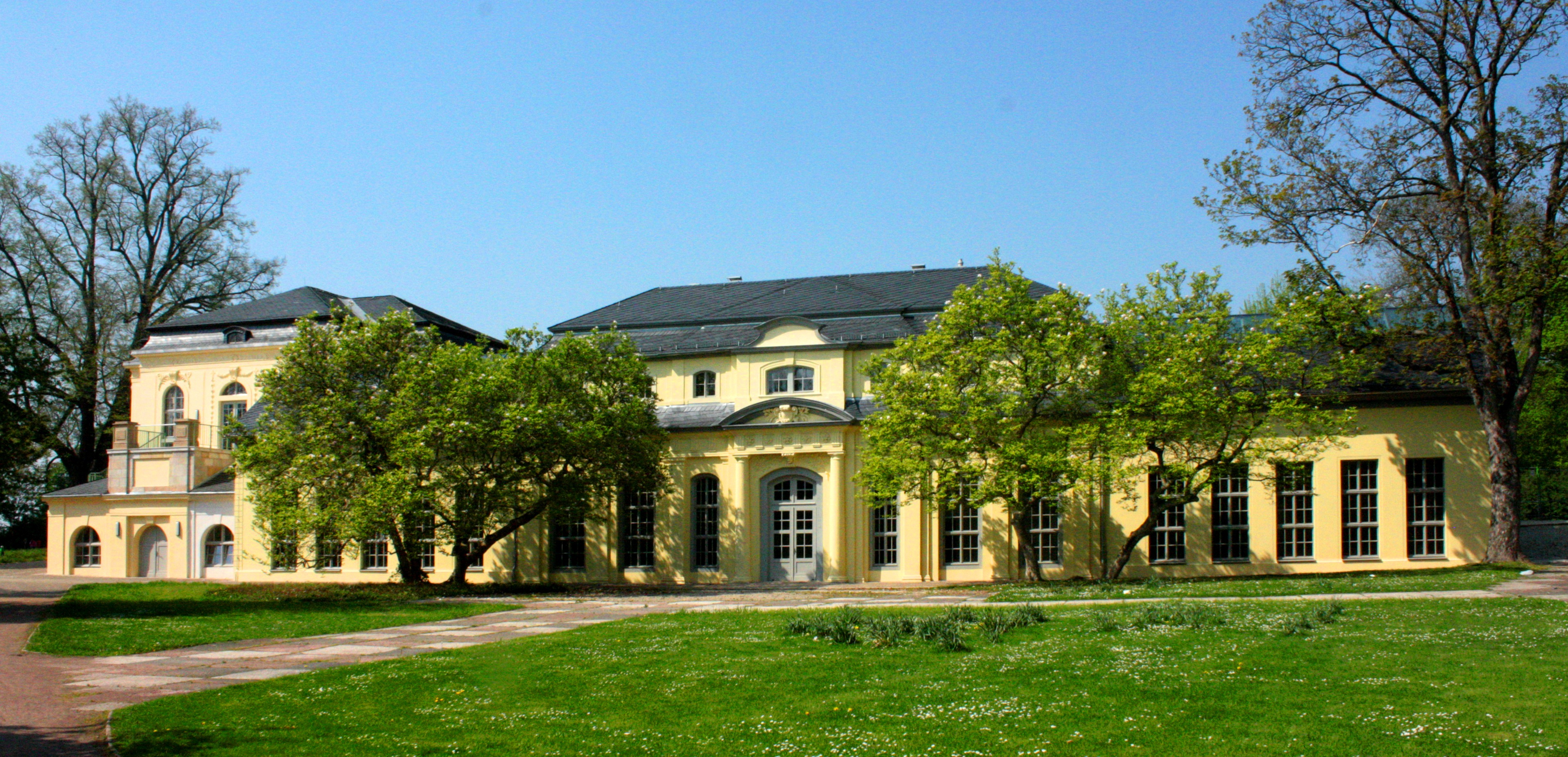 Orangery and teahouse in city of Skat Altenburg/Thuringia